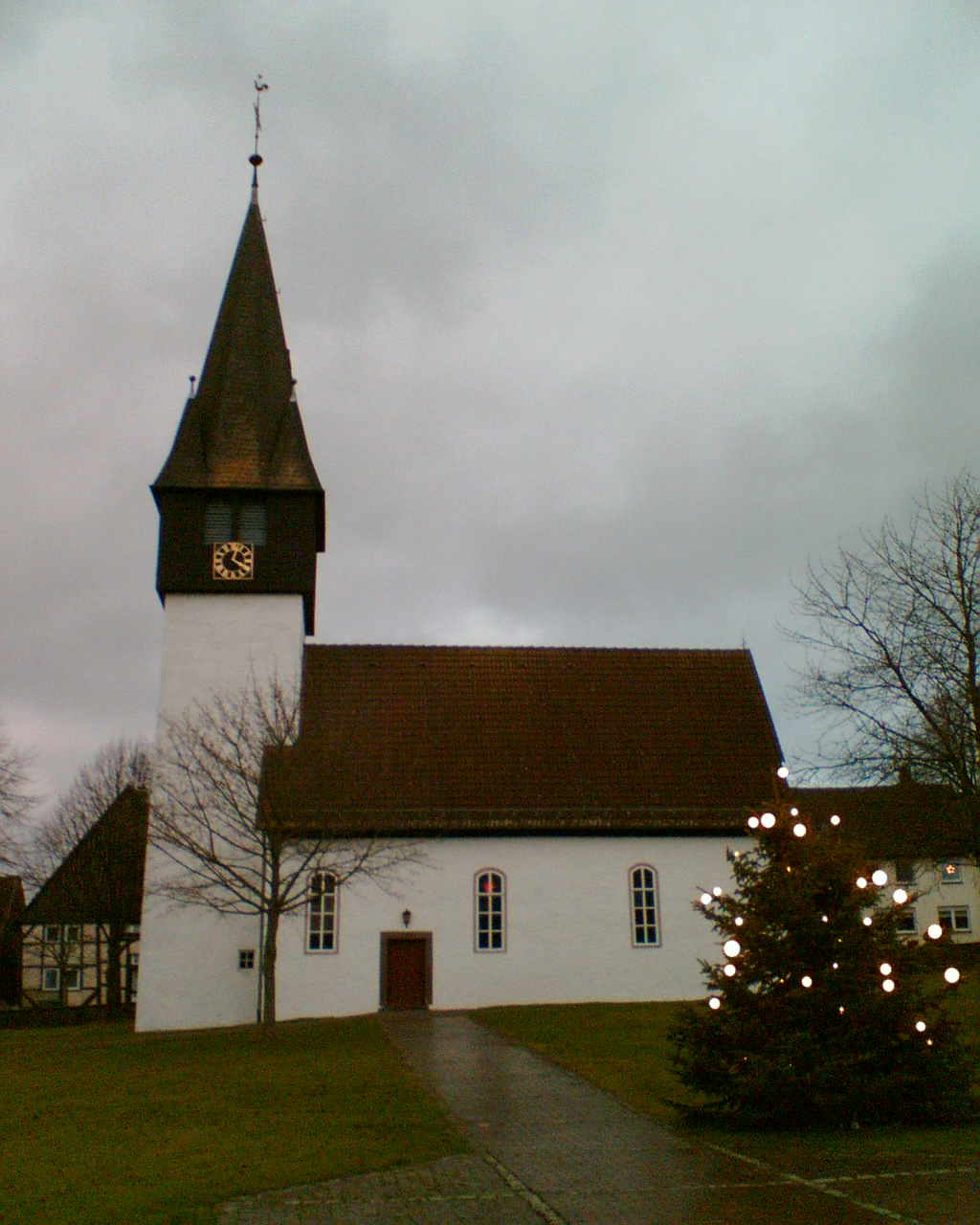 church in Derental, Solling hills, Germany, christmas tree in front of church